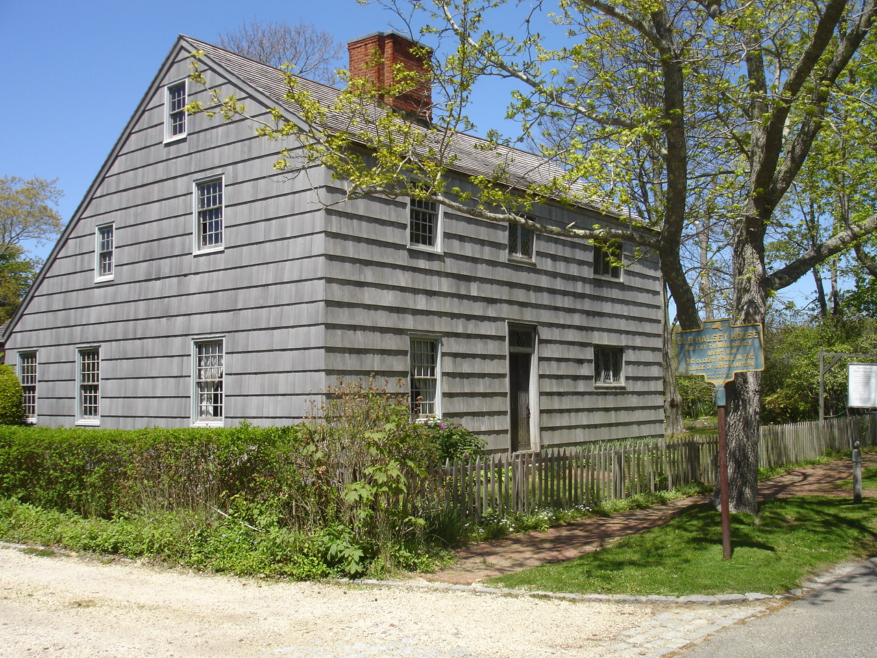 I took this photo of the Old Halsey House myself on May 12, 2011.